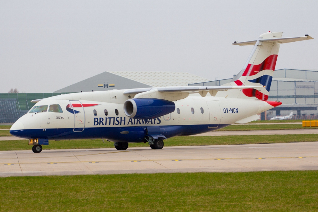 Manchester 12/3/12 - aircraft operated on behalf of Sun Air.